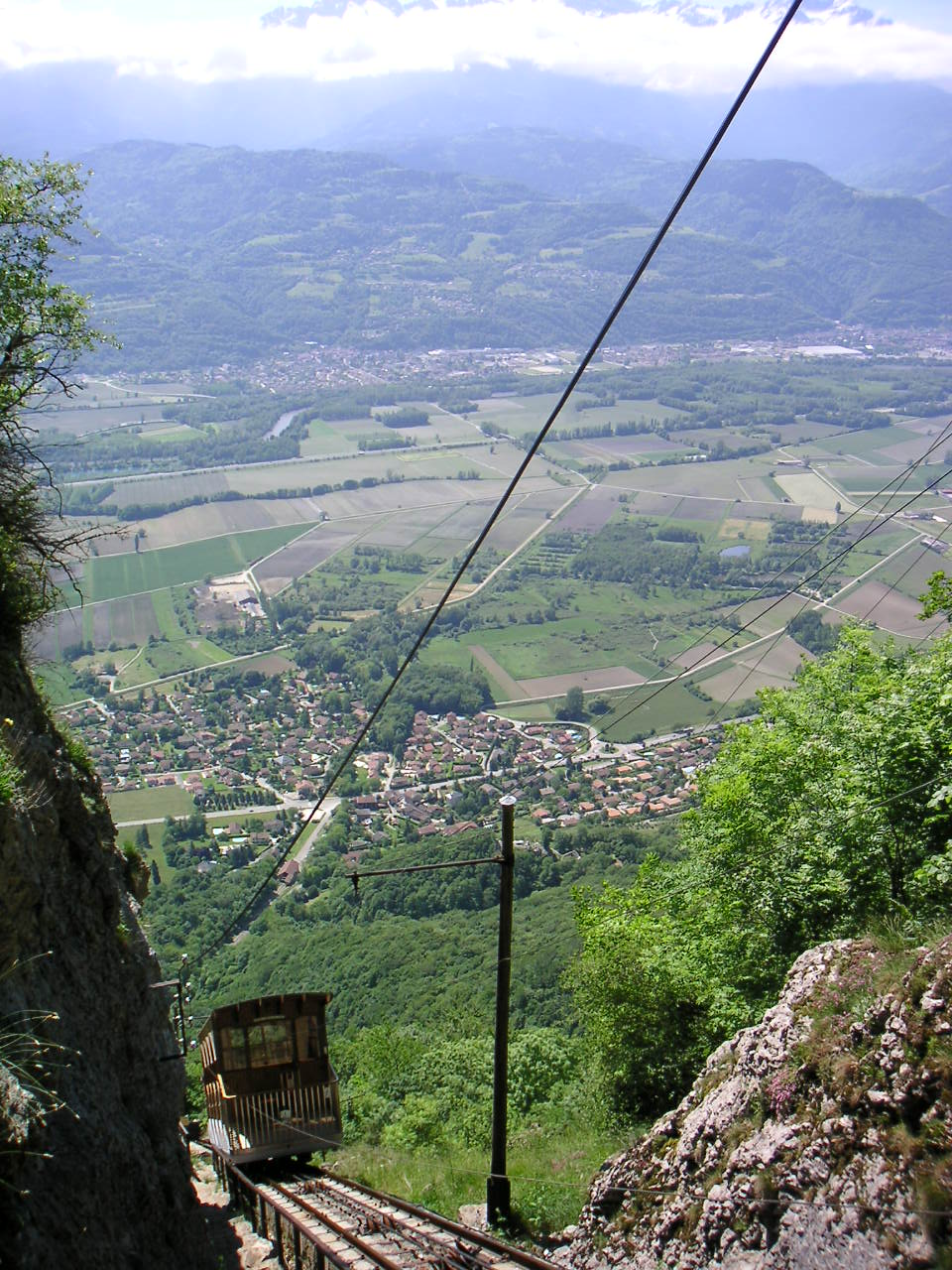 Funicular from french city Saint-Hilaire du Touvet (38 - Isère). Shoot from "Pal de fer" foot path.